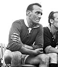 Bertil Nordahl, Swedish Footballer of the year 1948